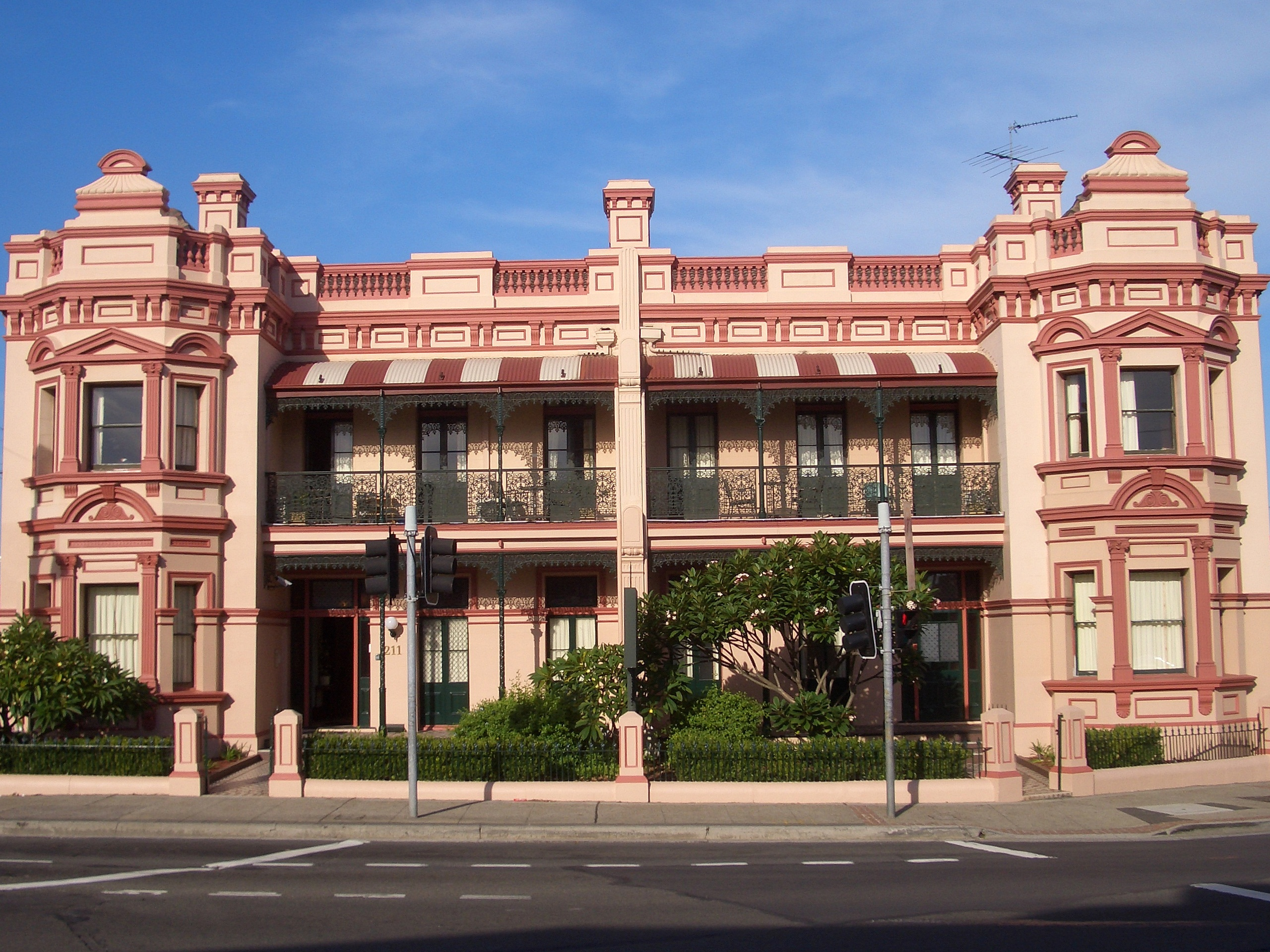 Randwick Lodge, Randwick, Sydney (image altered to eliminate tilt, 2014-10-13, by User_Sardaka)